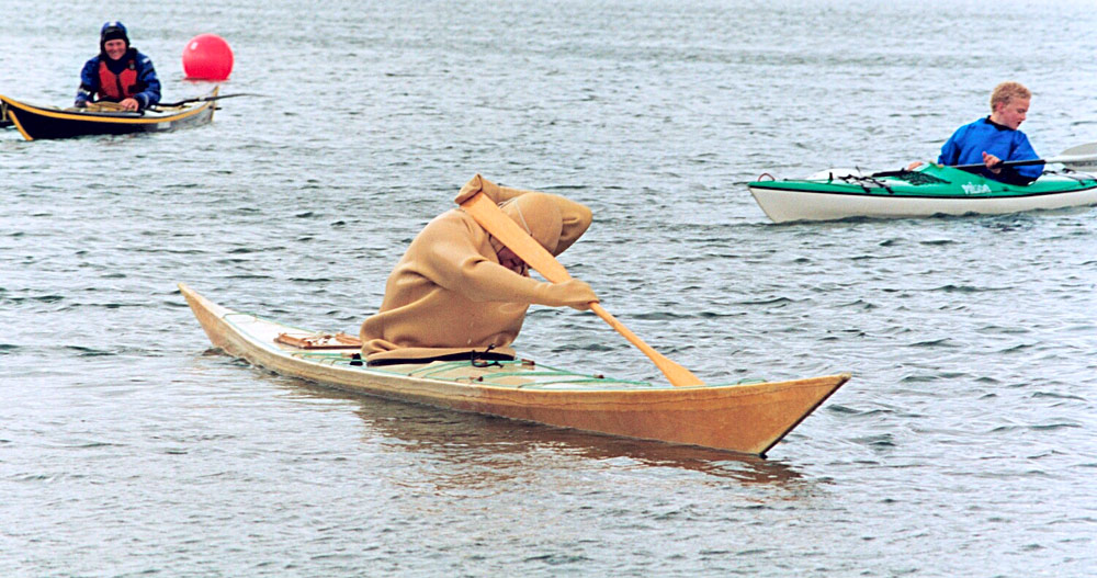 Pavia in his hybrid GOF (glass-on-frame) kayak at Grænlenskar nætur 2003, Flateyri. Standard roll with paddle behind neck